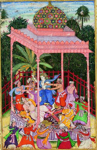 Harivamsa